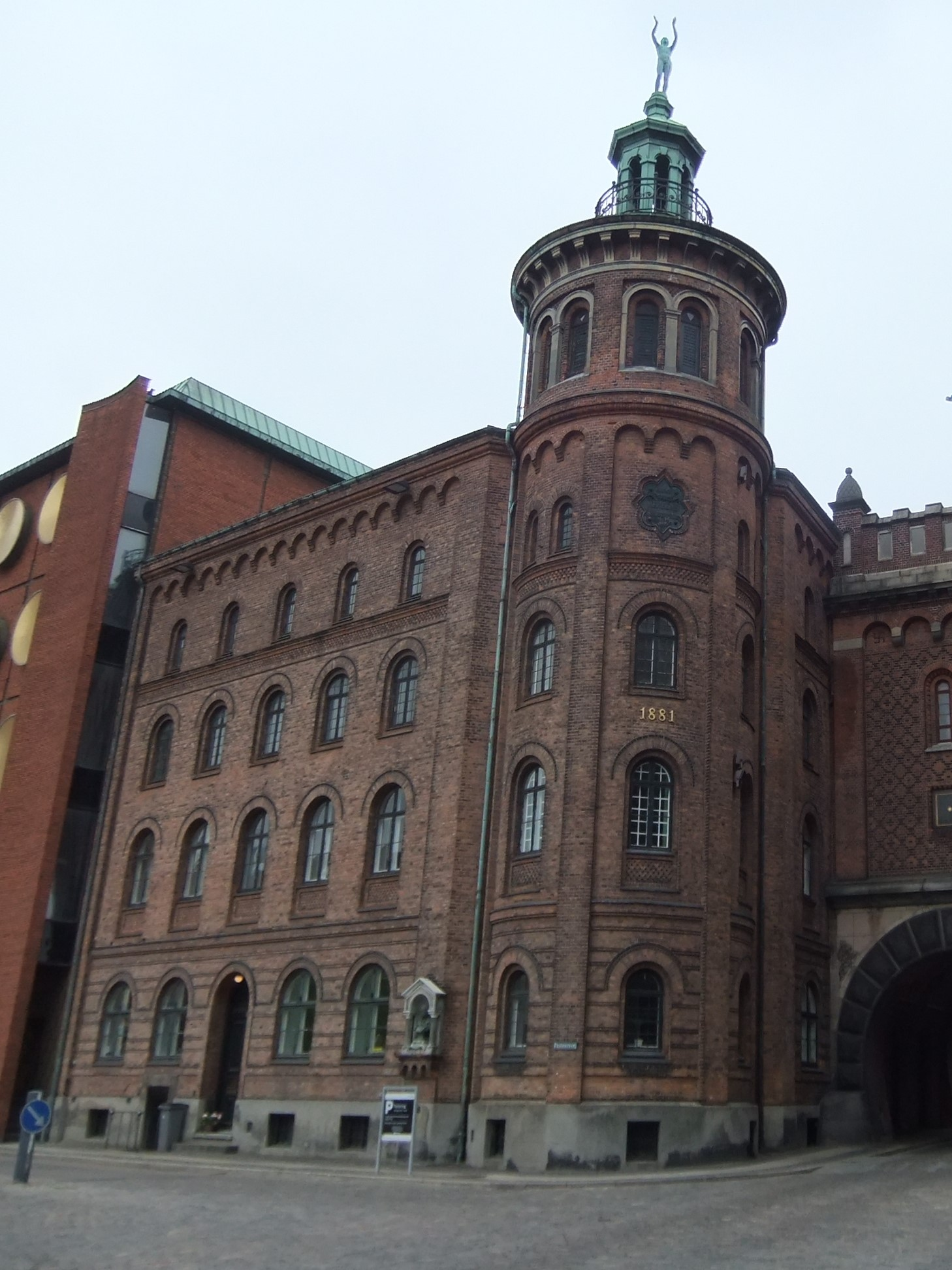 Carlsberg Brewery, Copenhagen